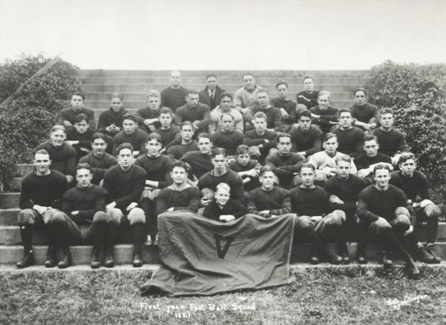 American Football team at the University of Virginia, 1921 "Title: Football team Comments: University of Virginia football team, 1921. "First Year Foot Ball Squad, 1921." Athletics - Sports - Football. 1 b&w photograph. Image Filename: prints00763 Accession Number: RG-21/36.781 Copy Negative Number: 4x5-1018-C" (University of Virginia Visual History Collection)